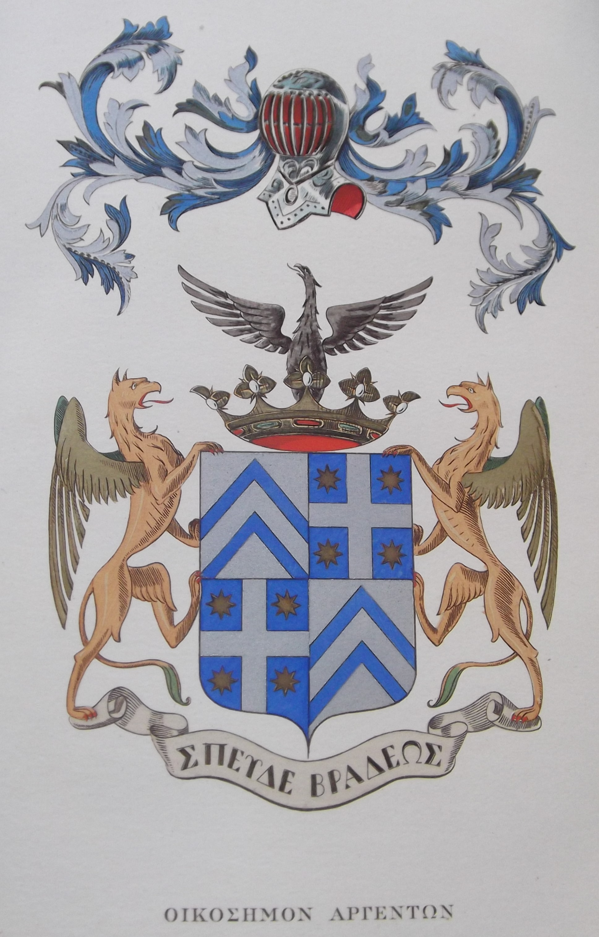 Coat of arms of the noble family Argenti of Chios